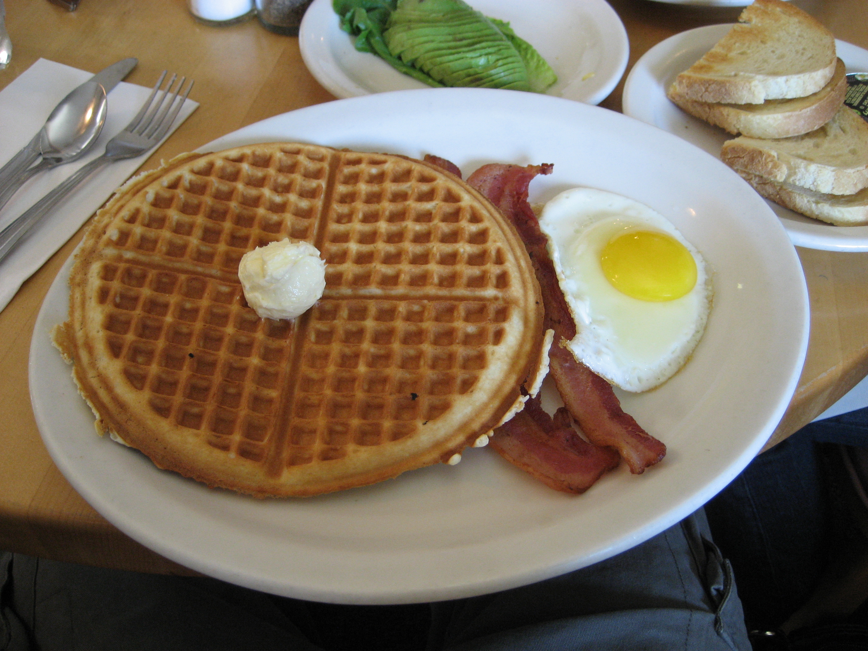 american breakfast